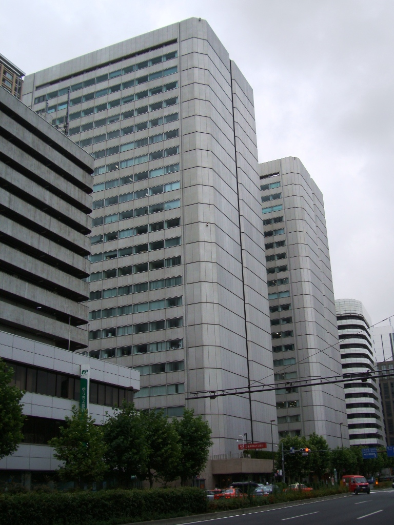 Shin-Aoyama building, or Aoyama Twin, Aoyama, Tokyo. This building on Aoyama street was completed in 1978